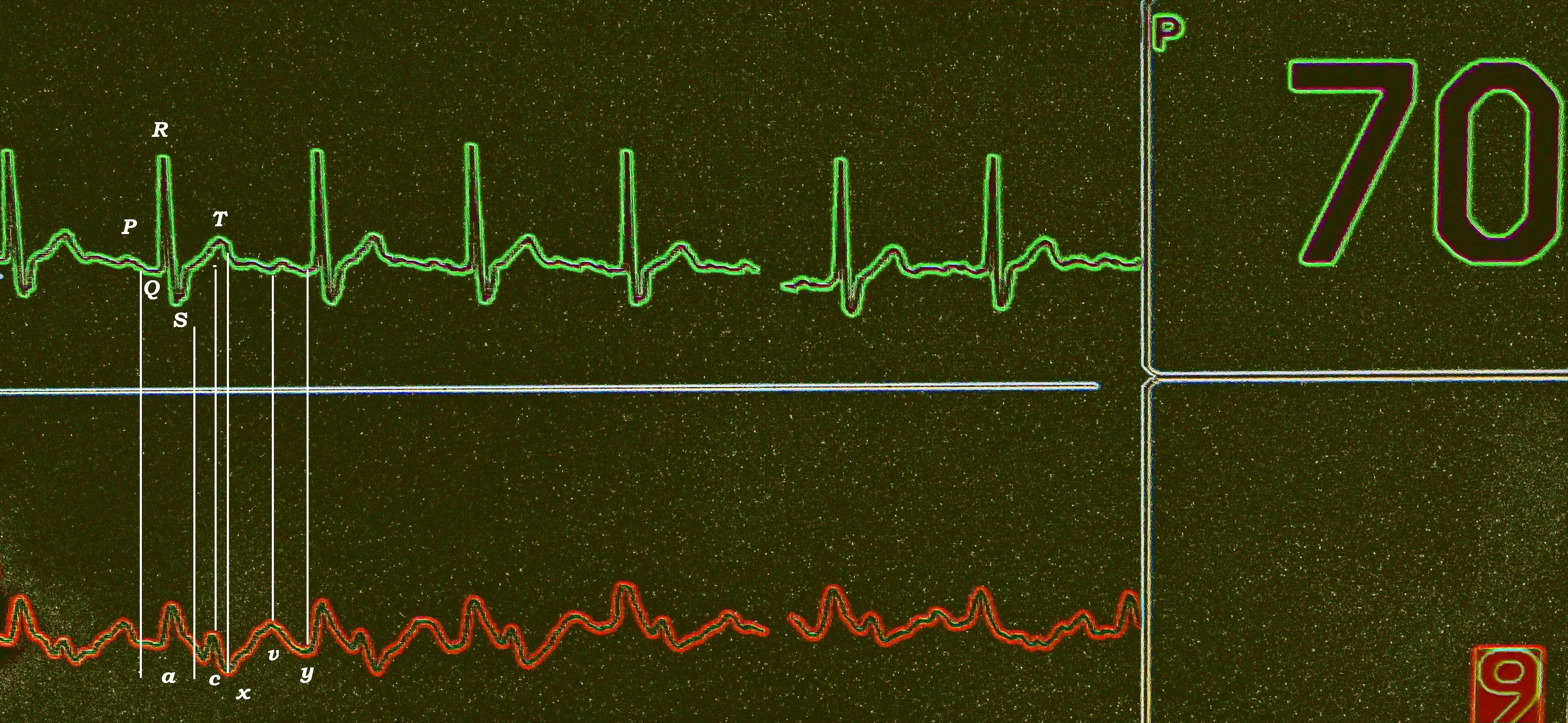 Relationship of ECG and CVP curves on a medical monitor